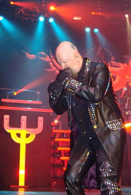 Rob Halford during Judas Priest concert